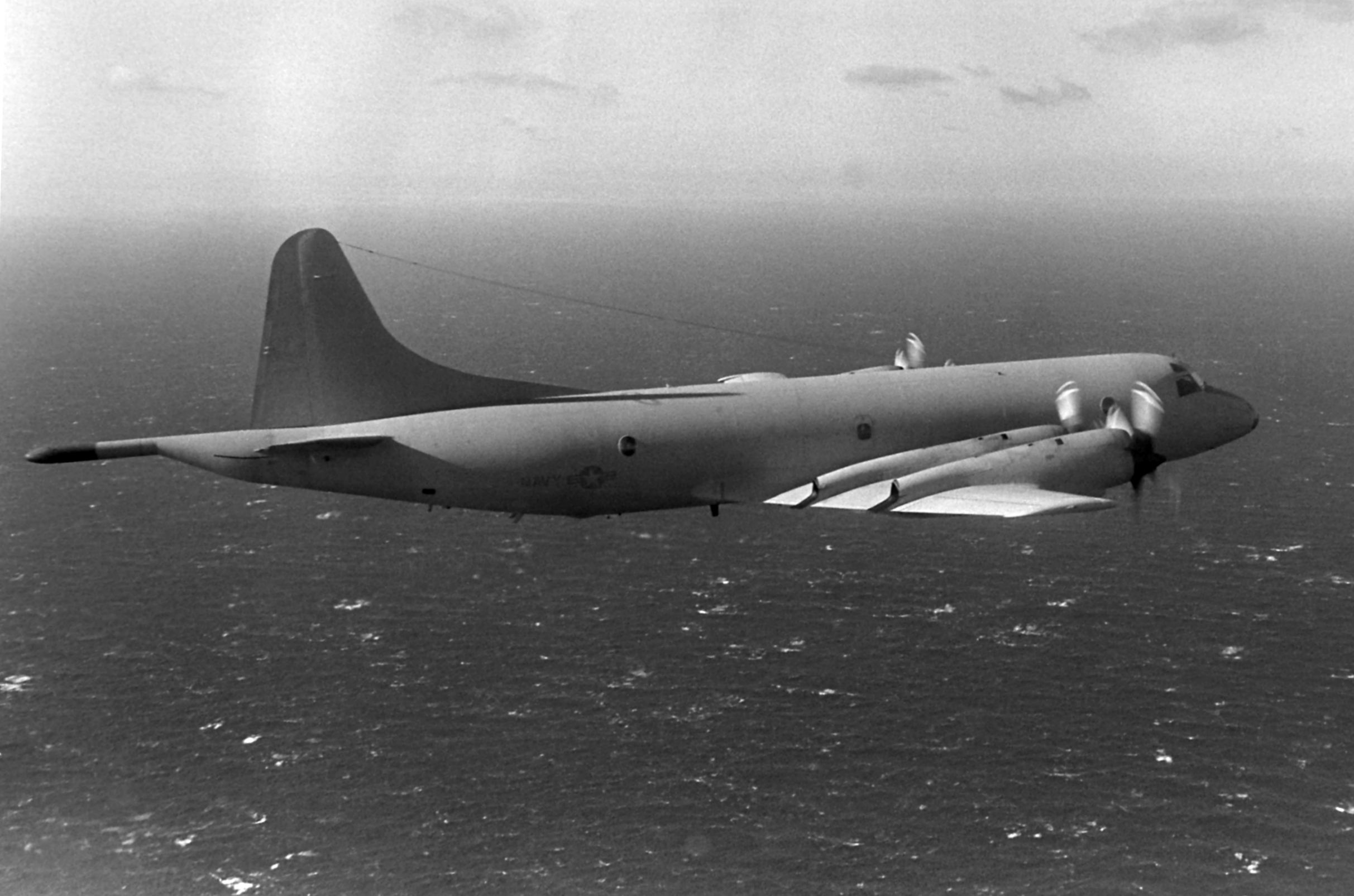 A U.S. Naval Air Reserve Patrol Squadron VP-66 Liberty Bells Lockheed P-3B Orion aircraft in flight during active duty training, in 1990. The aircraft is painted in an early "low visibility" grey paint scheme with no squadron markings or bureau number visible.